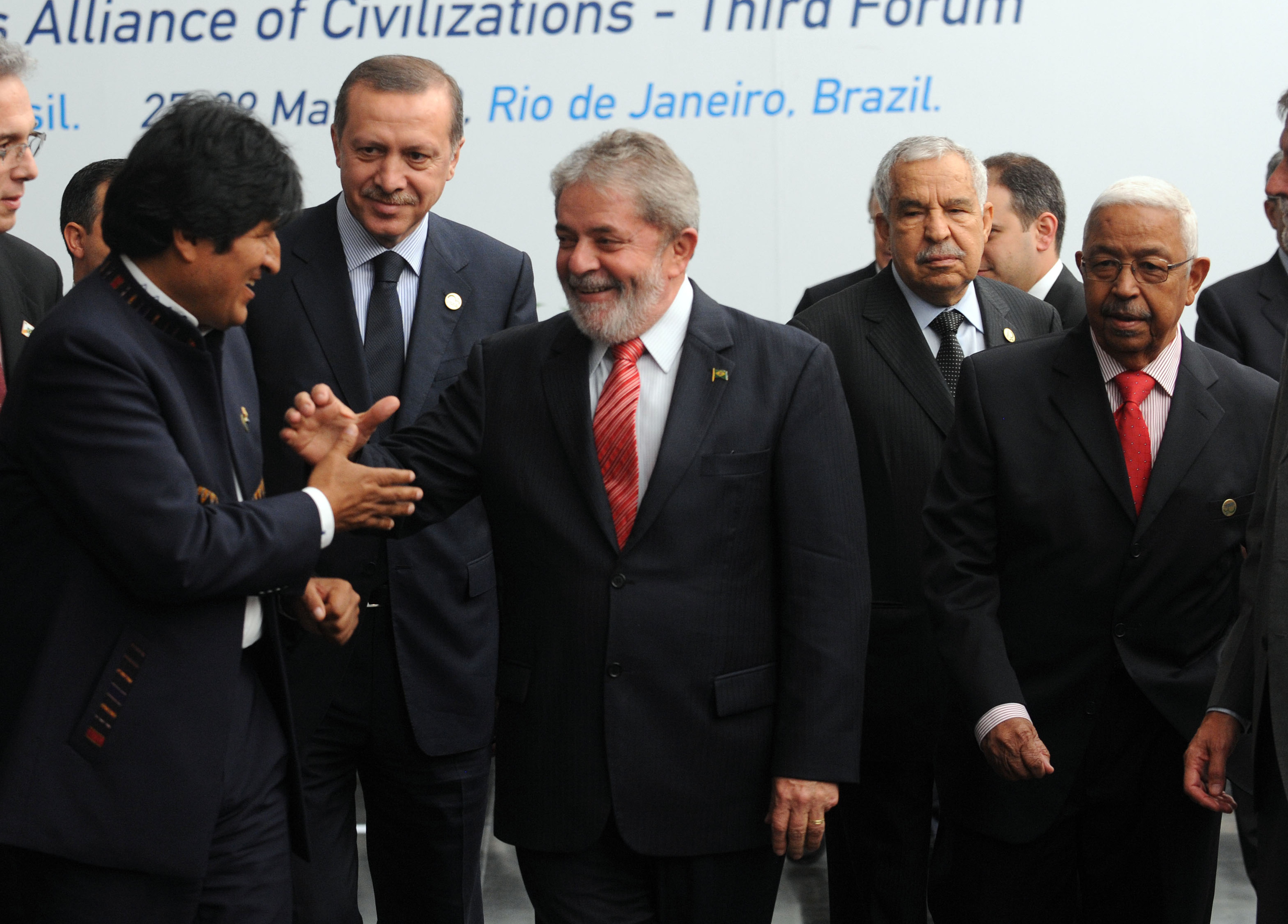 Third Global Forum of the UN Alliance of Civilizations in Rio de Janeiro, Brazil.